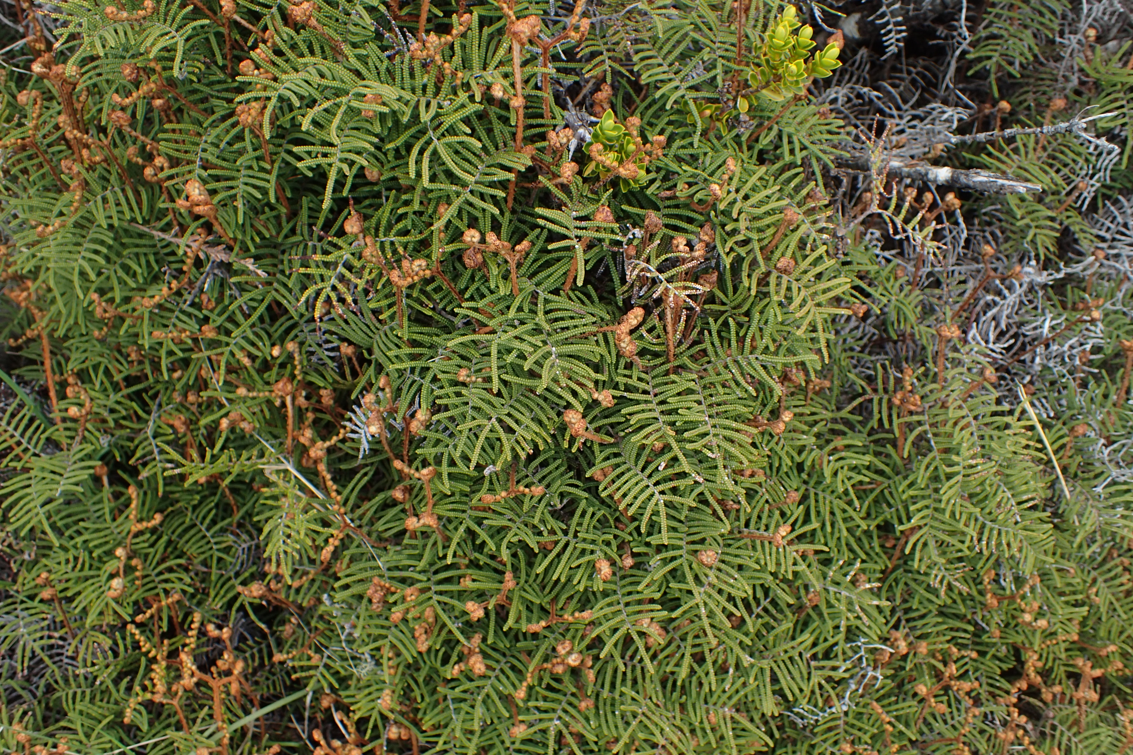 Gleichenia alpina on Silica Rapids Walk, Whakapapa, Waikato (New Zealand)